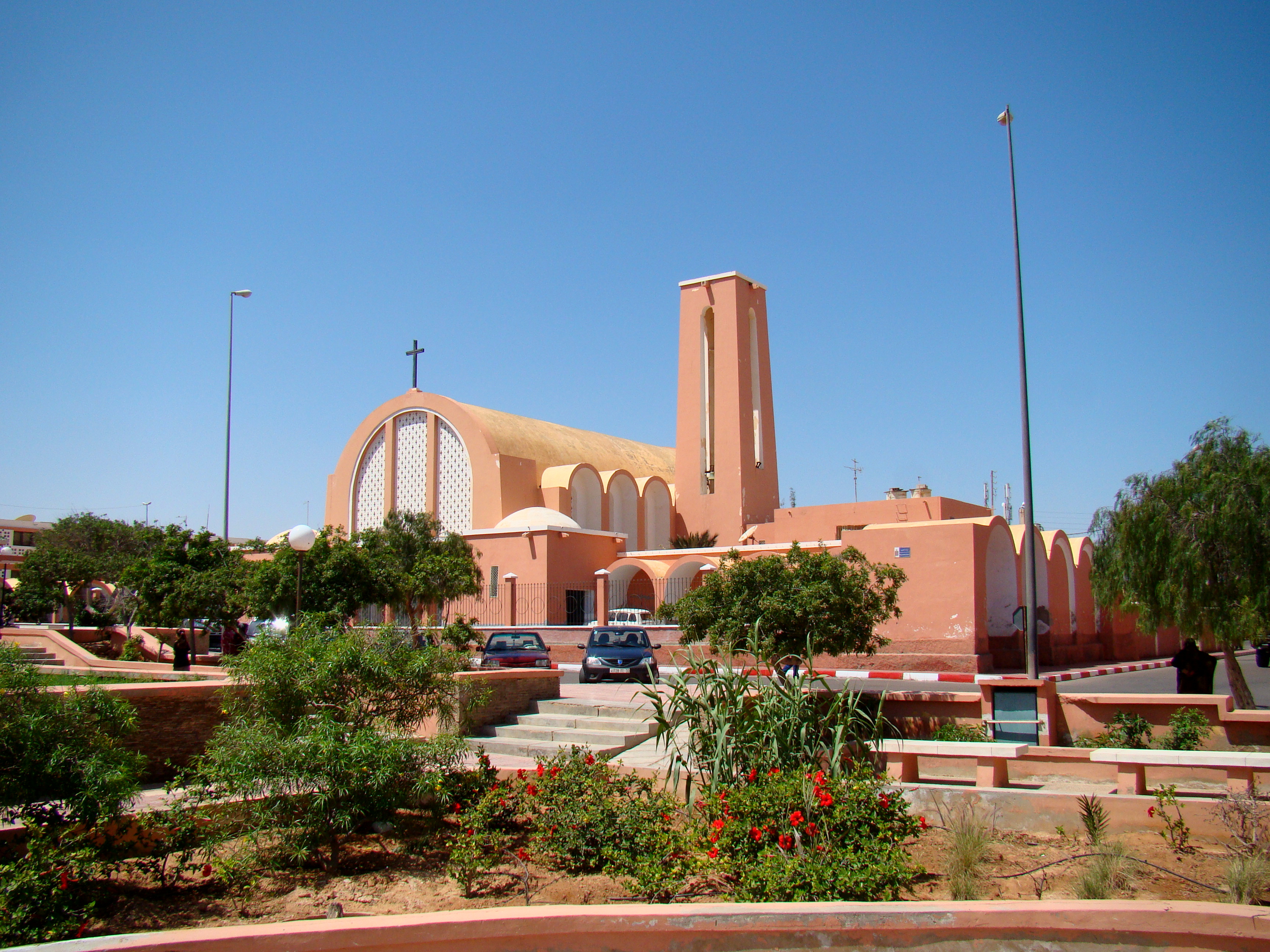 The old Spanish 'Saint Francis of Assisi Cathedral' in El Aaiún—Laayoune. As seen from the park across the street to the west.